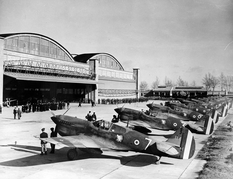 12 Curtiss P-40 Warhawks to the Free French Fighter Group GC II/5 based in North Africa; these aircraft are seen above with the old Lafayette Escadrille insignia emblazoned on their fuselages. In this photo, you can see at least four short tails: 6, 8, 9 and 11. (Library of Congress US)